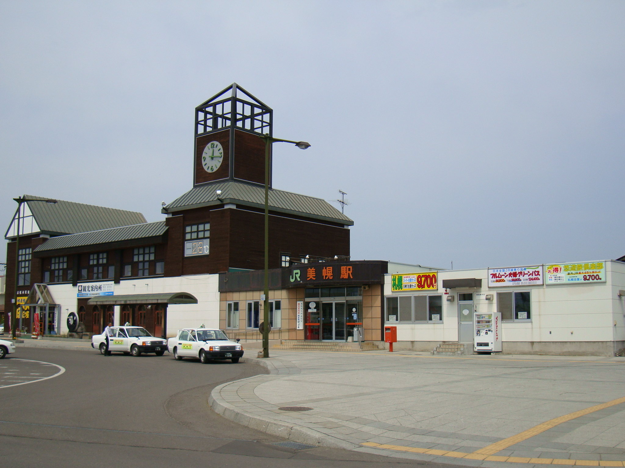 Bihoro Station